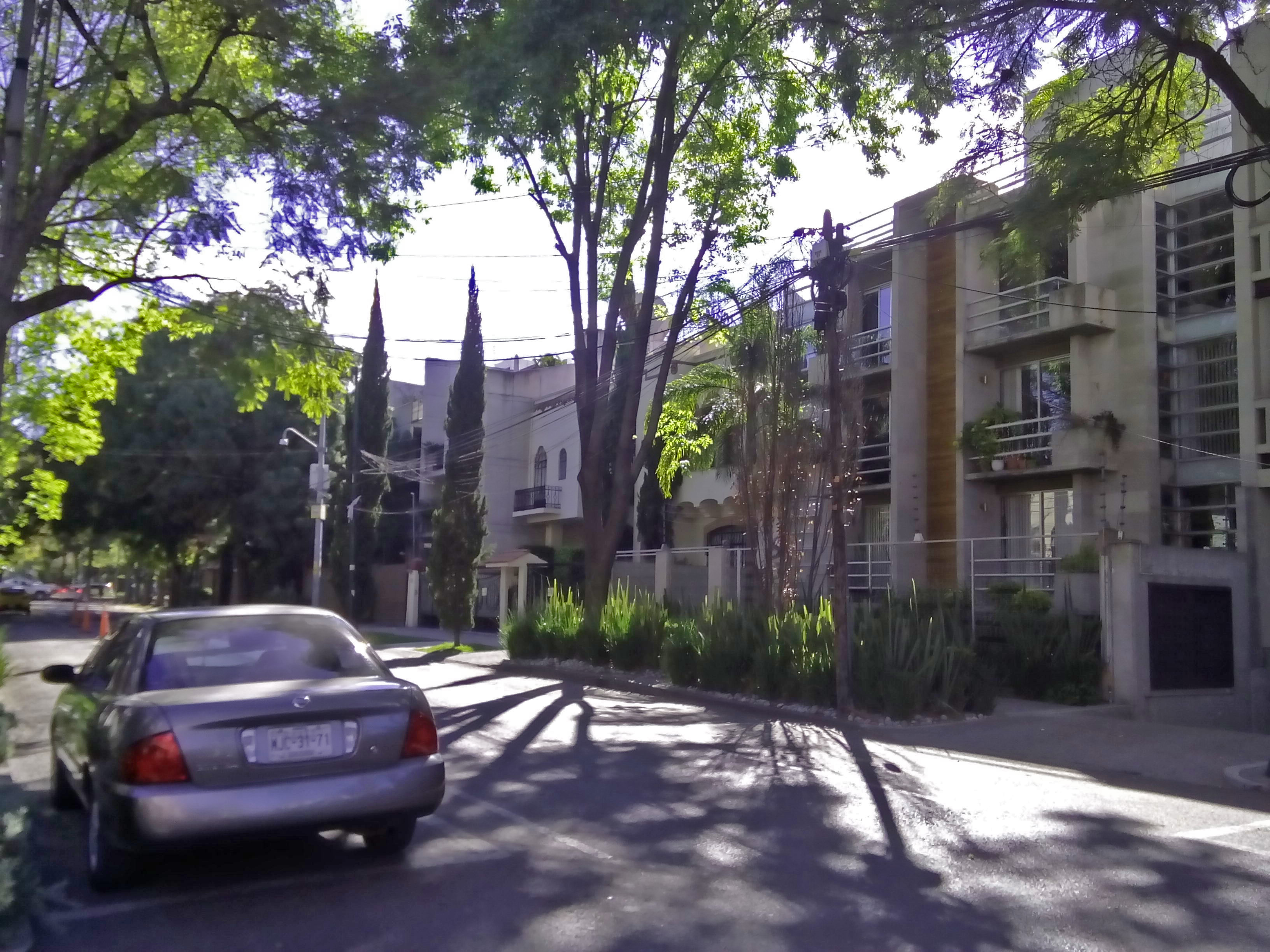 Polanco neighborhood in Mexico City